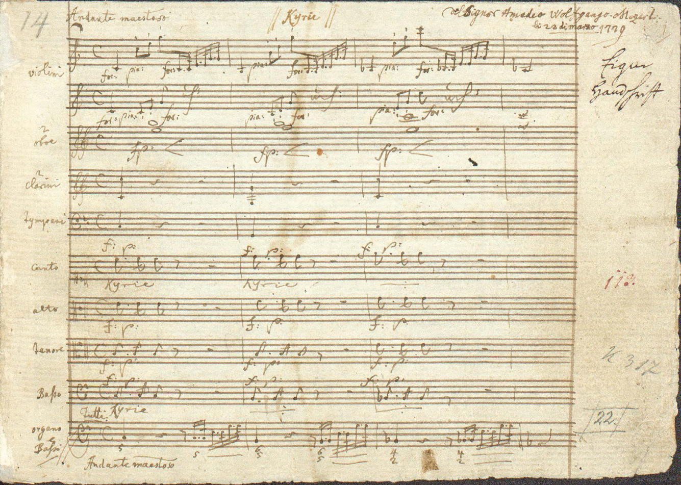 First page of the autograph manuscript of the Krönungsmesse (Coronation Mass) in C major, K. 317, by Wolfgang Amadeus Mozart (1756–1791). Composed in 1779. Manuscript is in the Jagiellonian Library in Kraków, Poland. The same image appears on the cover of the Novello vocal score of this work (ISBN 0-85360-994-2, 2000), which indicates that it is an autograph score, written by Mozart himself.